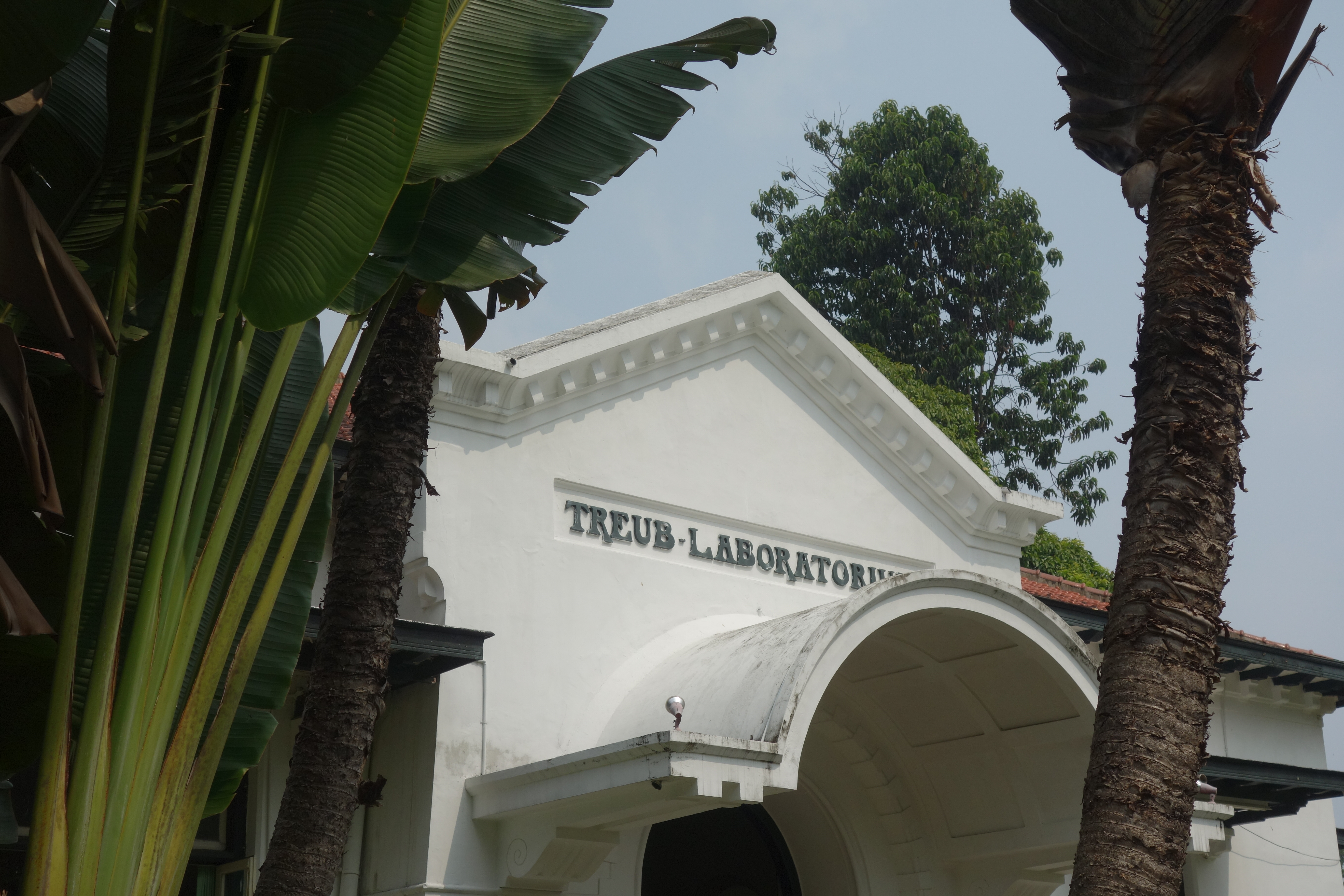 Treub Laboratory, Bogor Botanical Garden, Java, Indonesia (2018)